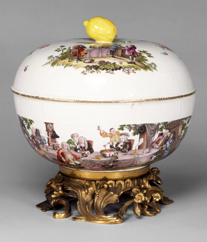 Punch bowl and stand, Made at the Meissen factory, Germany, Saxony, About 1770, Porcelain, painted and gilded, gilt-bronze mounts V&A Museum no. C.37&A-1960